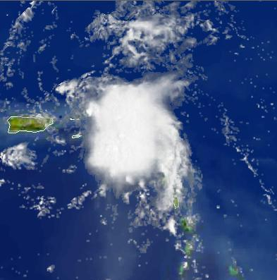 Tropical Storm Dean shortly after forming near the Lesser Antilles